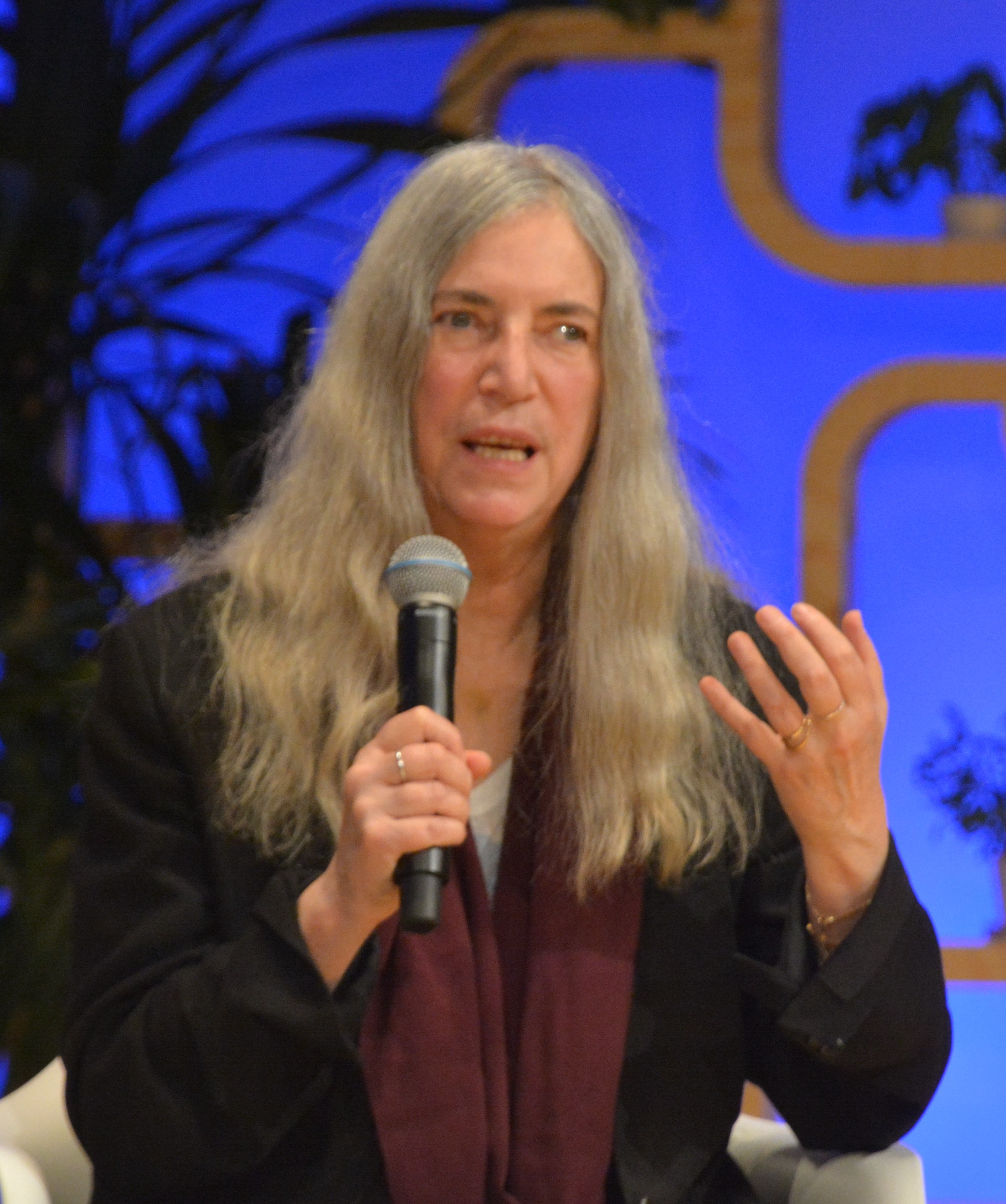 Patti Smith on Nobel Week Dialogue 2016 in Stockholm, Sweden